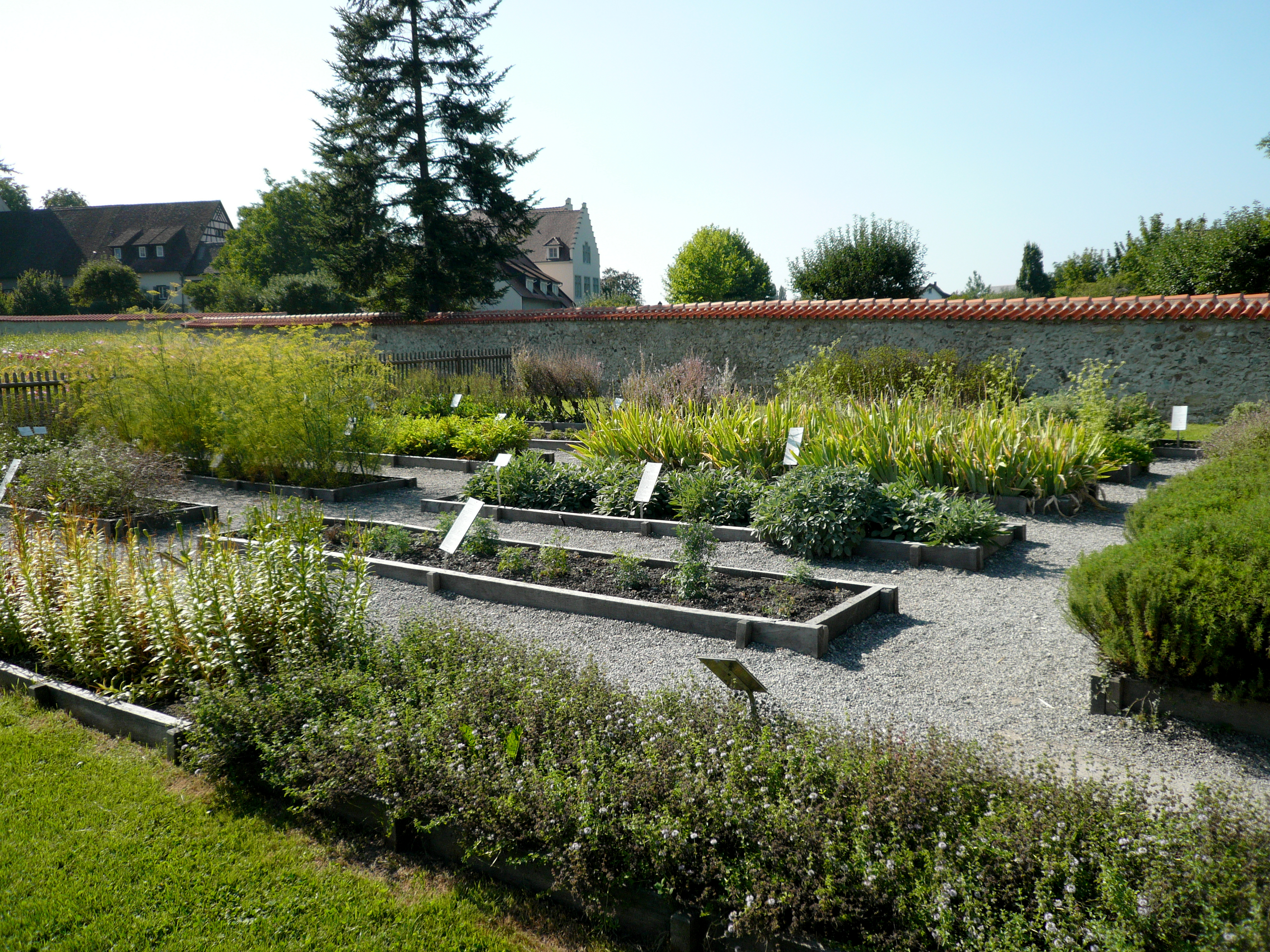 Herbal garden at monastery of Reichenau, Mittelzell